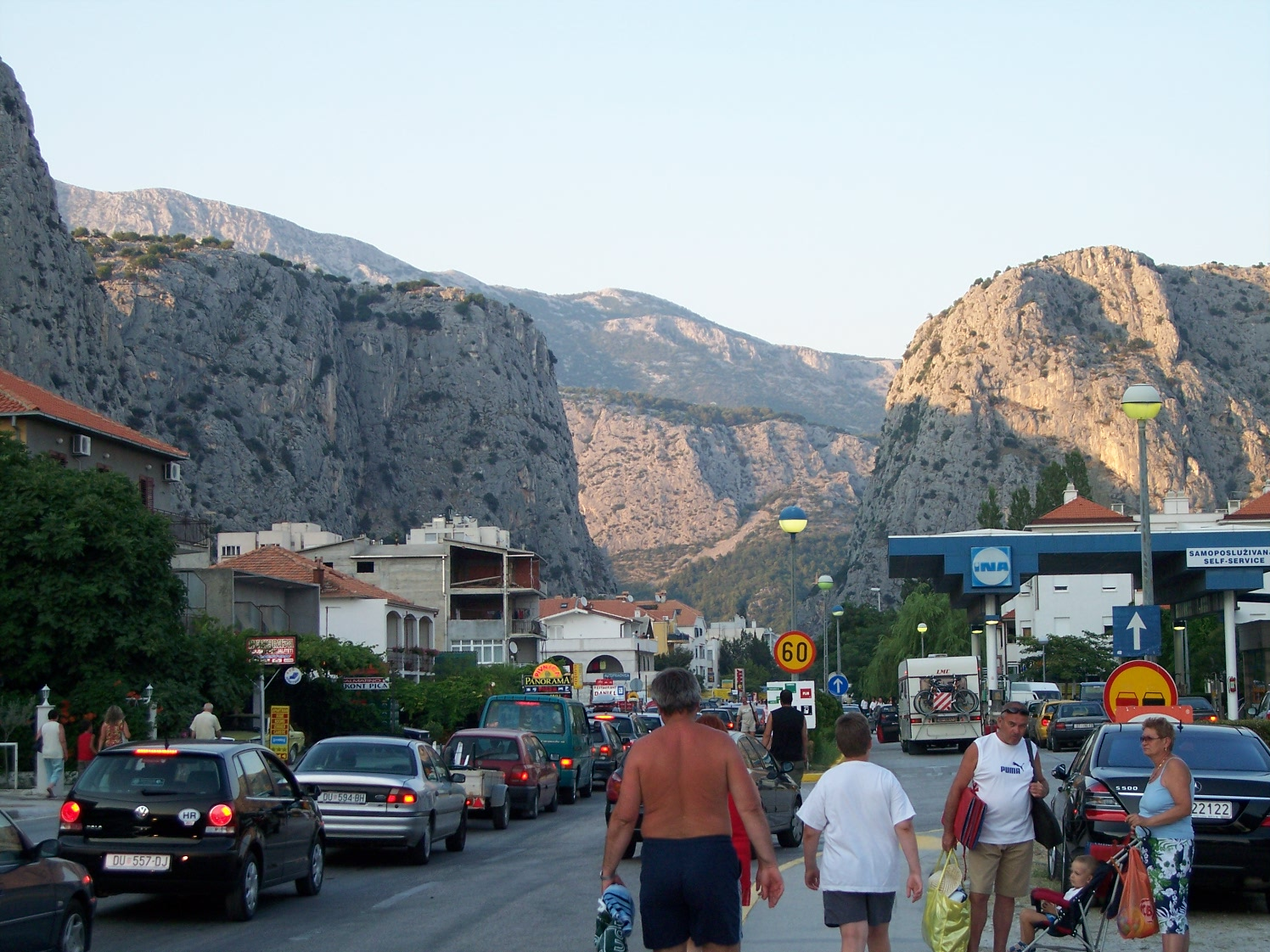 Omiš in Croatia